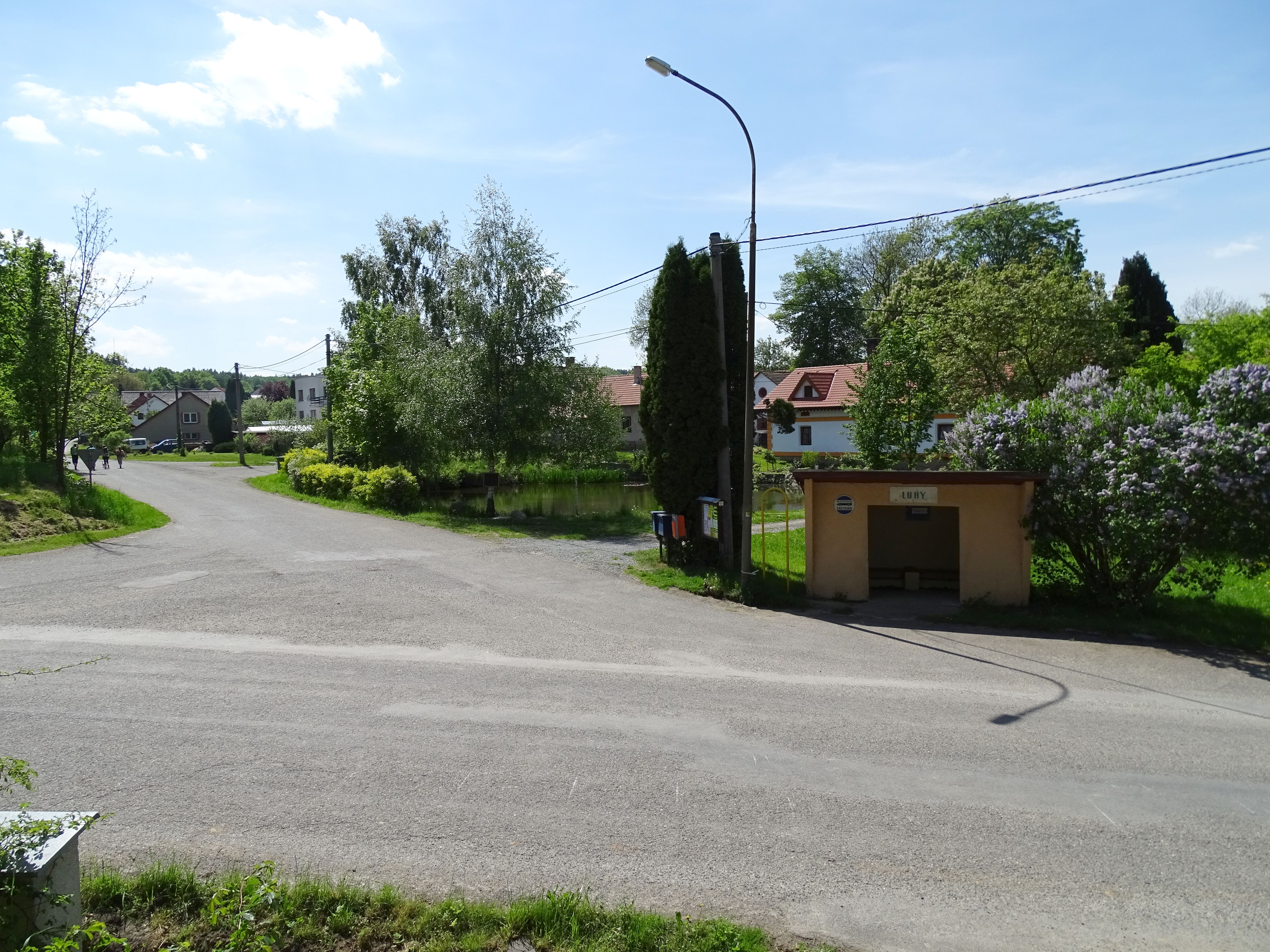 Prosenická Lhota-Luhy, Příbram District, Central Bohemian Region, Czech Republic. A bus stopa and a pond.